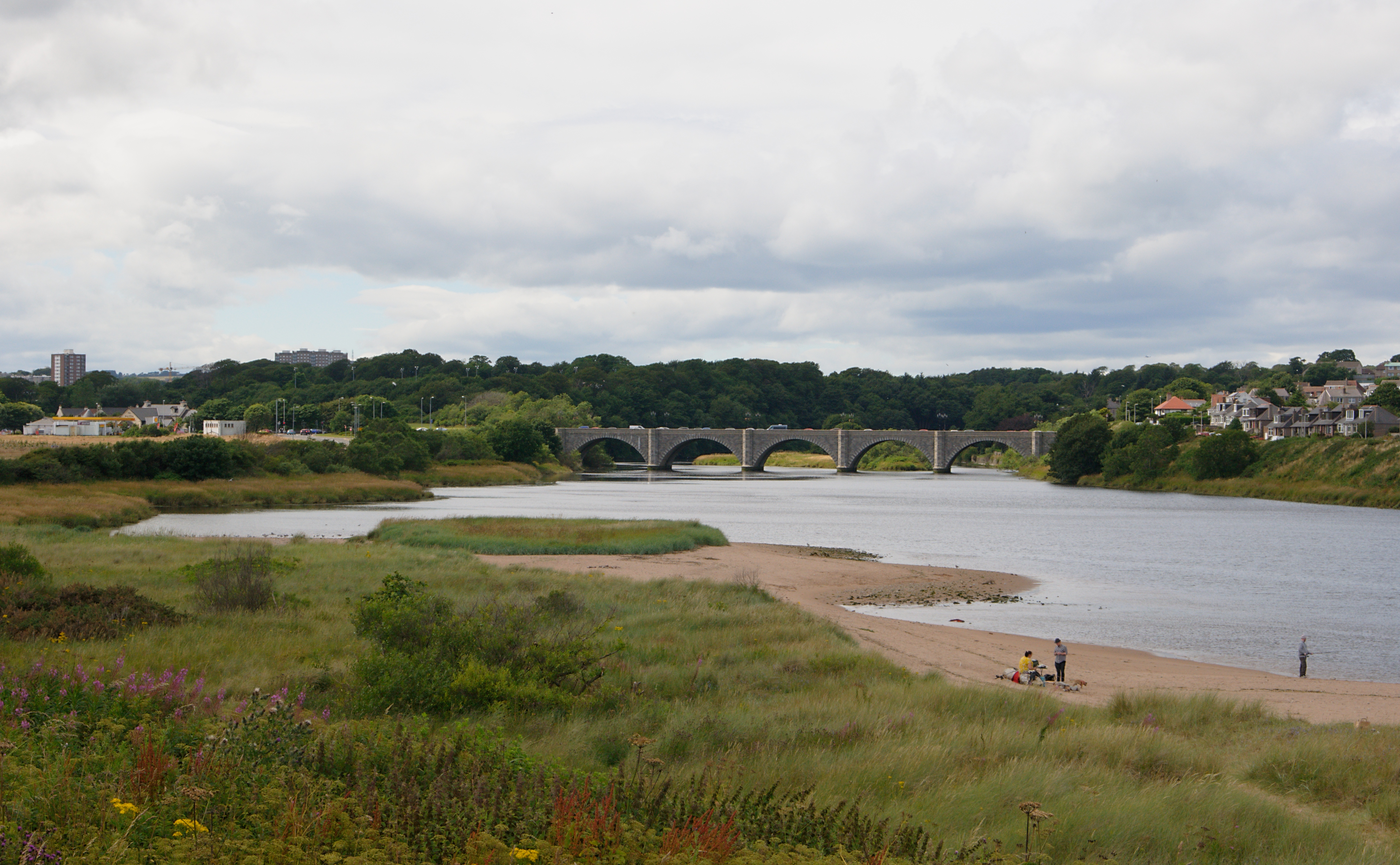 Mouth of River Don near Aberdeen